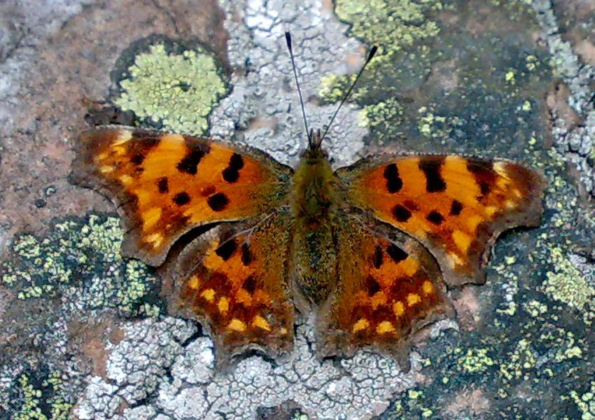 Nymphalis polychloros Polygonia c-album, Hurum, Norway